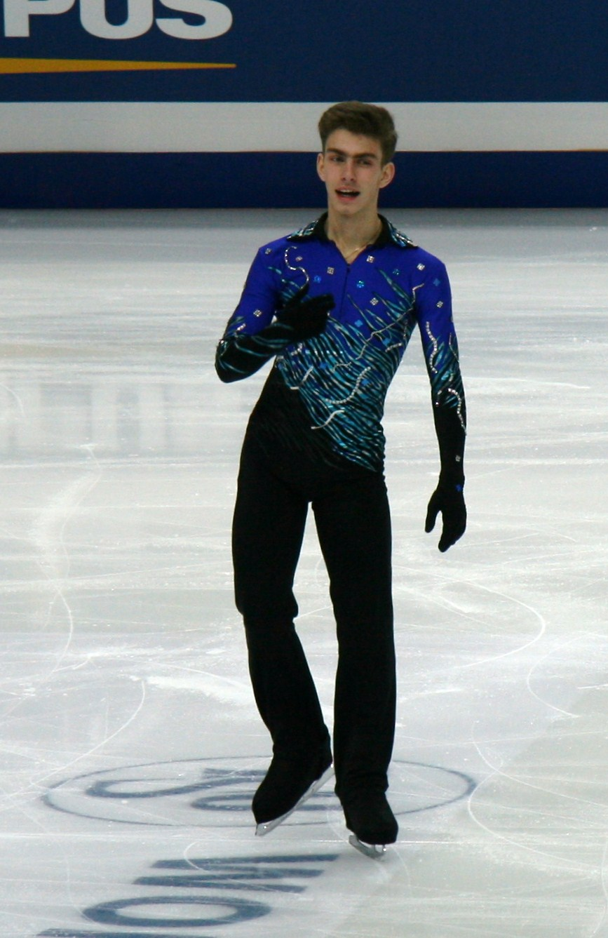 Sarkis Hayrapetyan at the 2011 World Figure Skating Championships